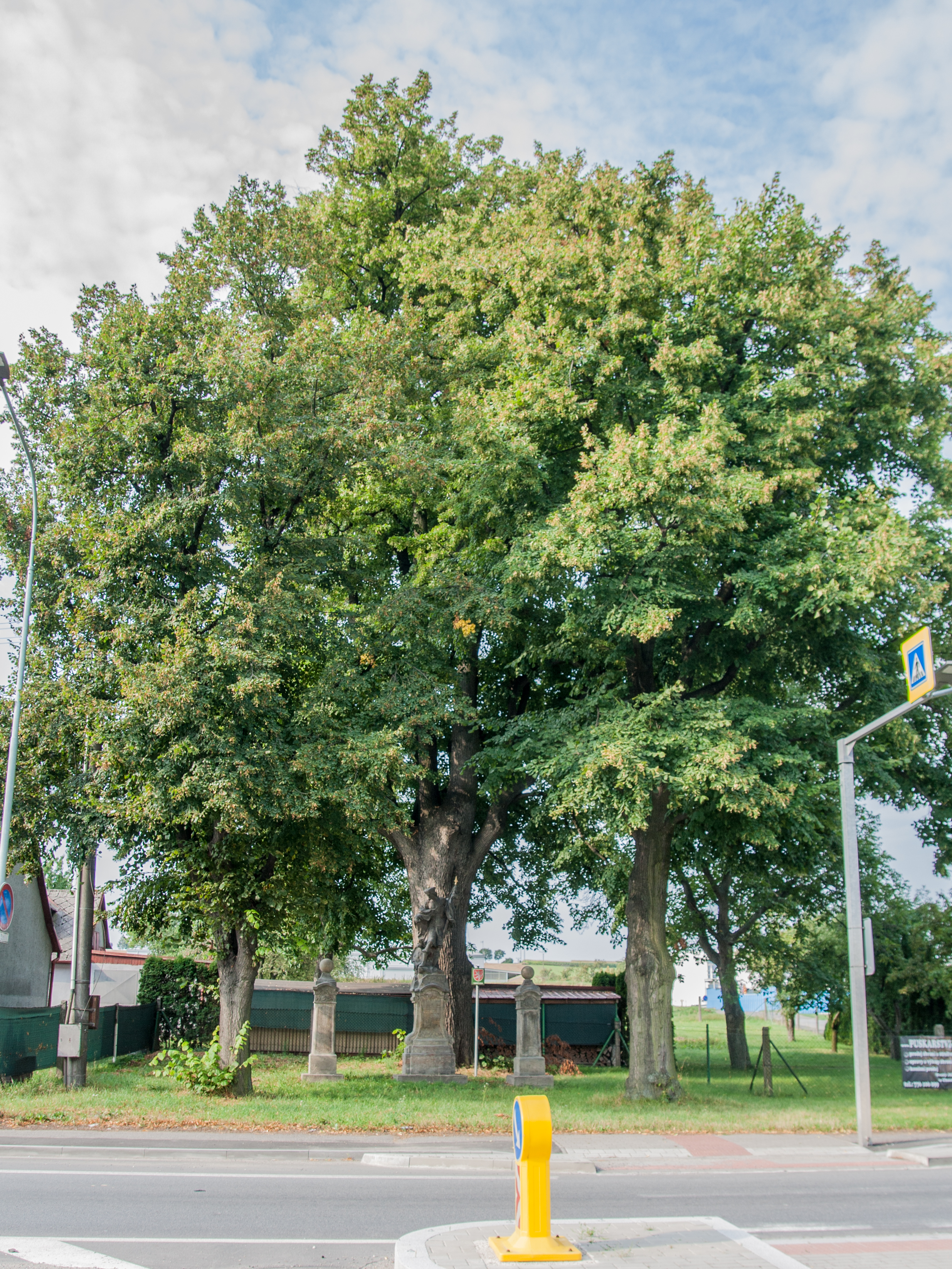 Famous tree (Tilia) near the Saint Wenceslaus statue in Litomyšl, Svitavy District, Pardubice Region, Czechia